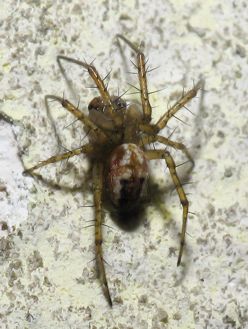 Spider (Mangora acalypha, male). Valverde, Vilarromarís, Oroso